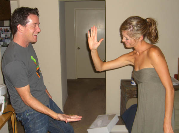 Example of Too Slow, part 2